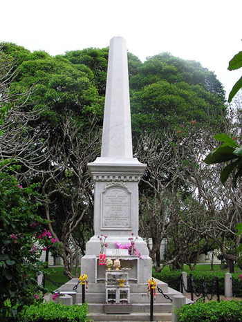 Monument or H.M. Queen Sunanda Kumariratana within Bang Pa-In Palace, Ayutthaya, Thailand